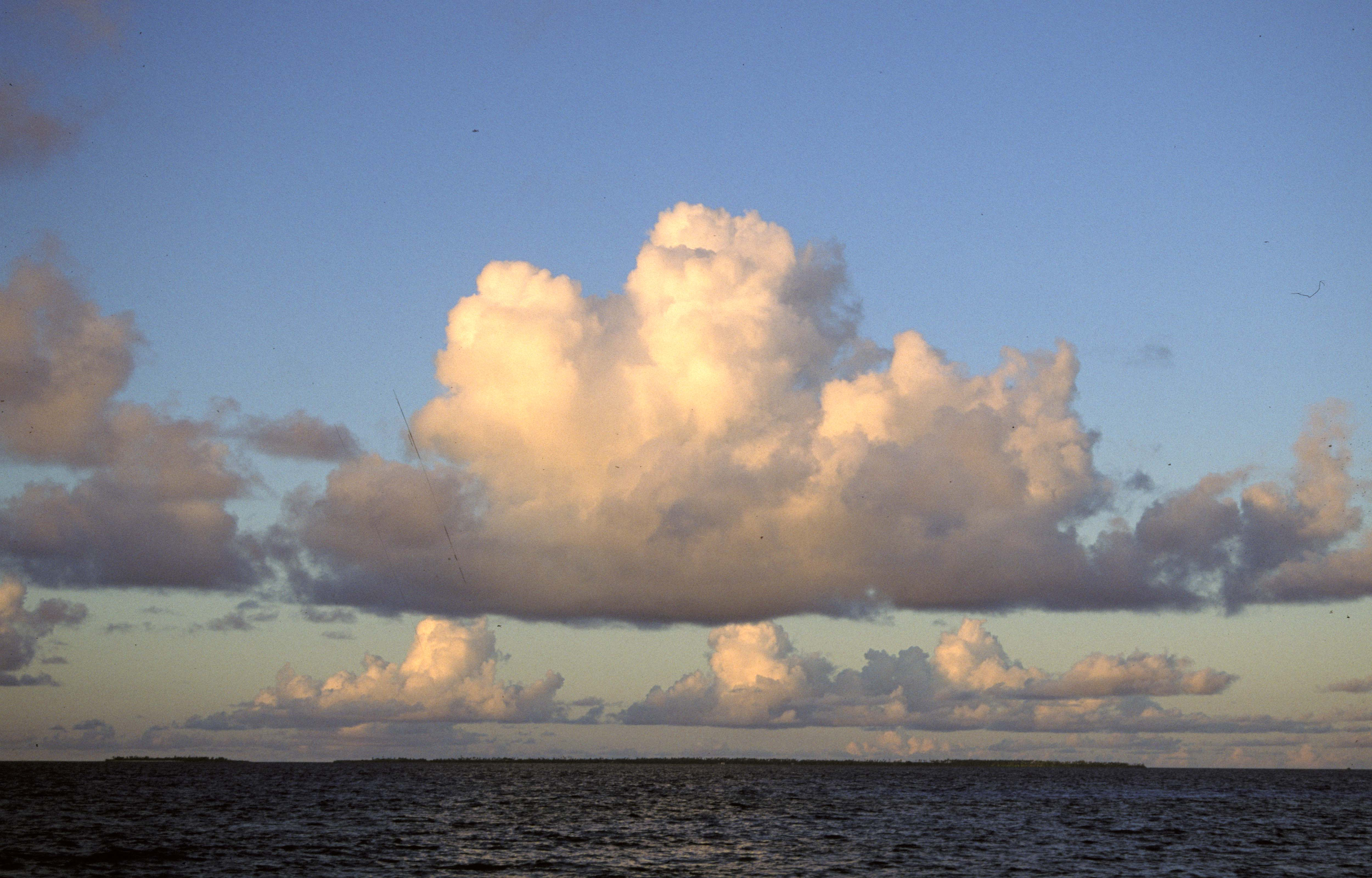 Sunset over the Pacific seen from Begin Island, Wotho Atoll, Marshall Islands